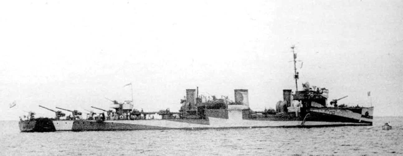 Soviet destroyer Valerian Kuybyshev, former Imperial Russian destroyer Kapitan Kern, Gavriil class.